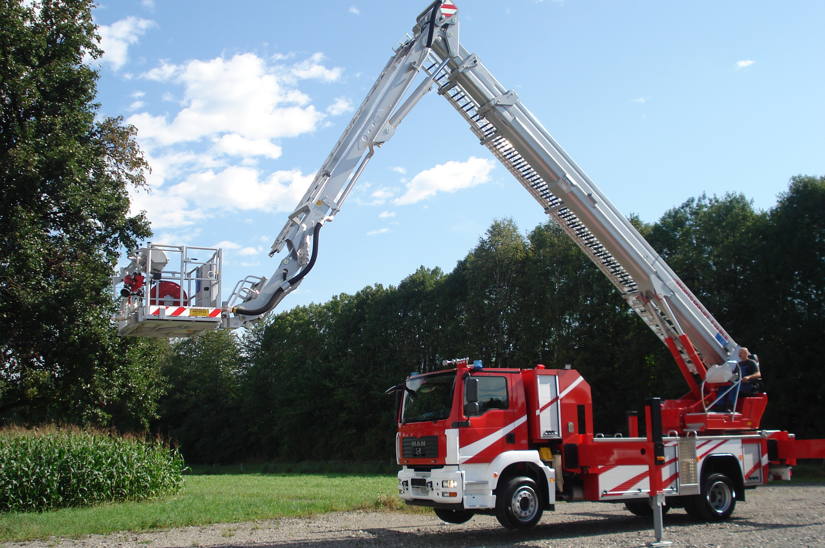 Aerial ladder platform F 32 RLX Bronto Skylift